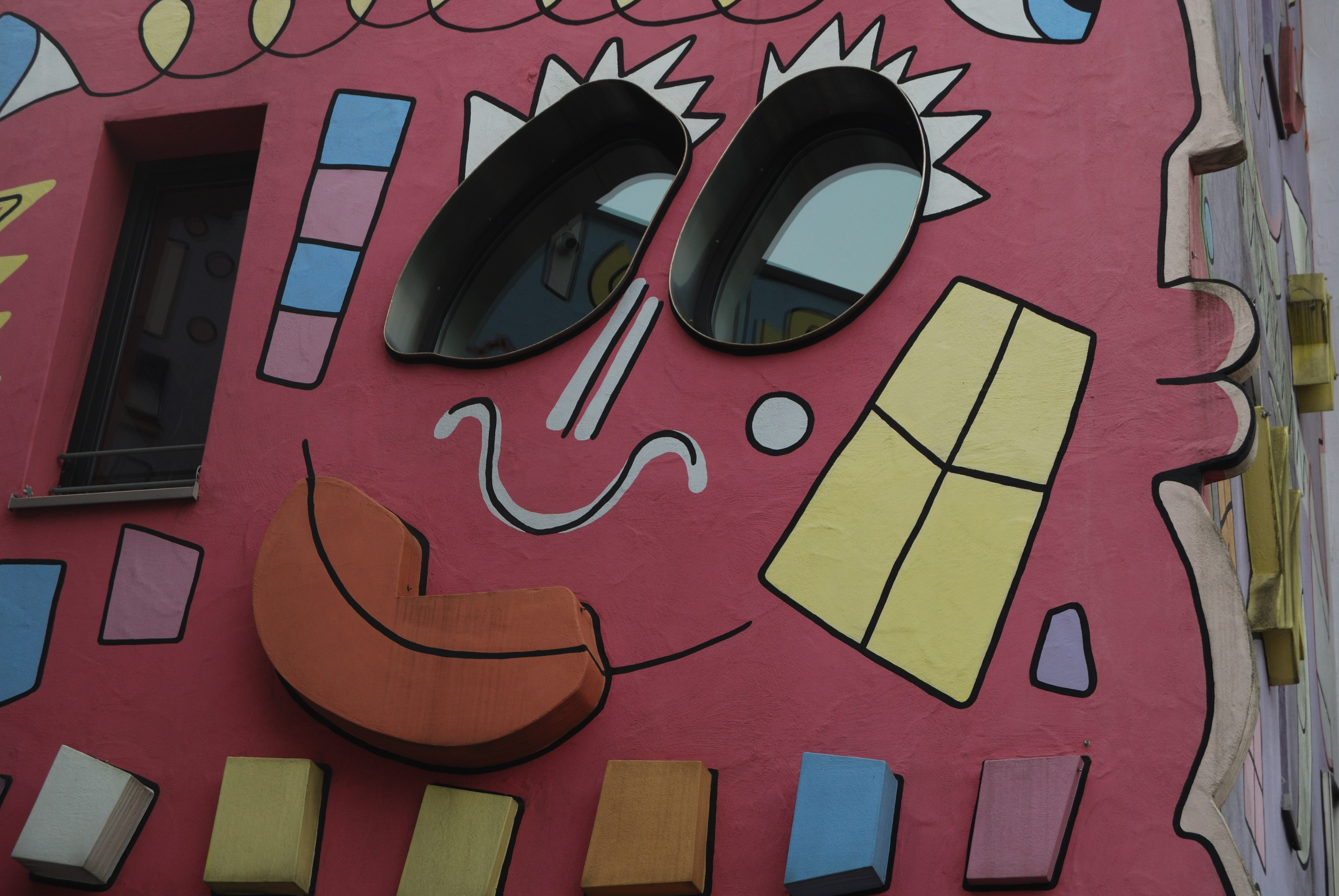 Happy Rizzi House, Detail: Face